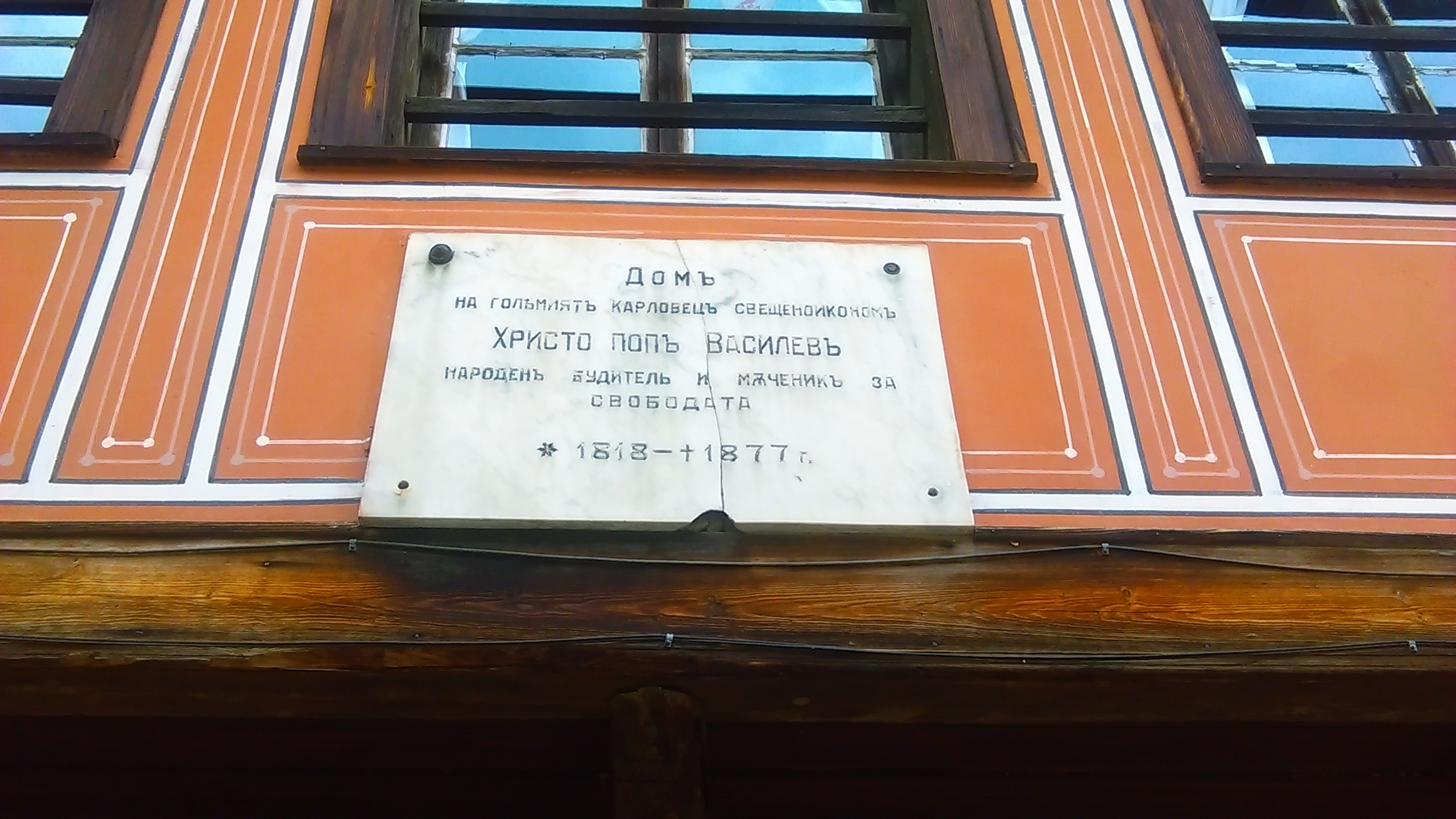 A memorial plaque to Hristo Popvasilev, Mazakov house in Karlovo